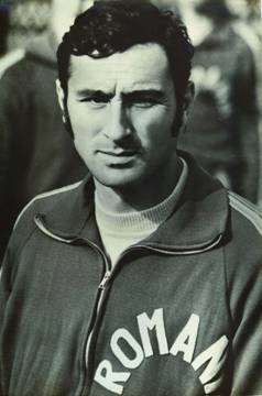 Narcis Coman playing for Romania